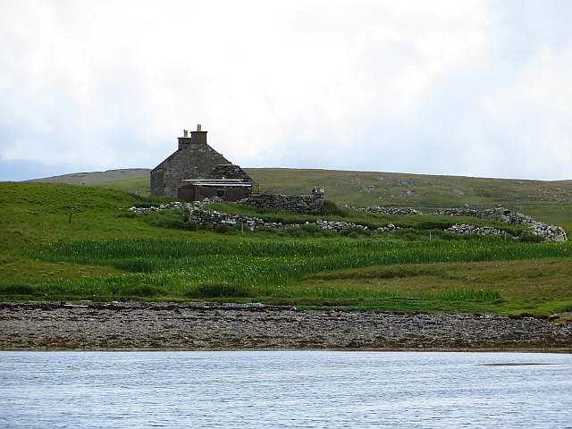 Linga